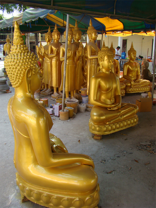 Vat Xaiyaphoum, Savannakhet, Laos.